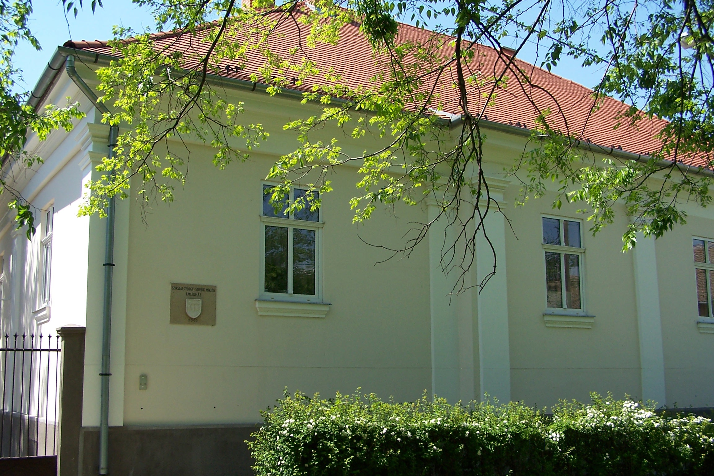 The György Szikszai-Miklós Szirbik Memorial House in Makó Makó, Kálvin tér 3